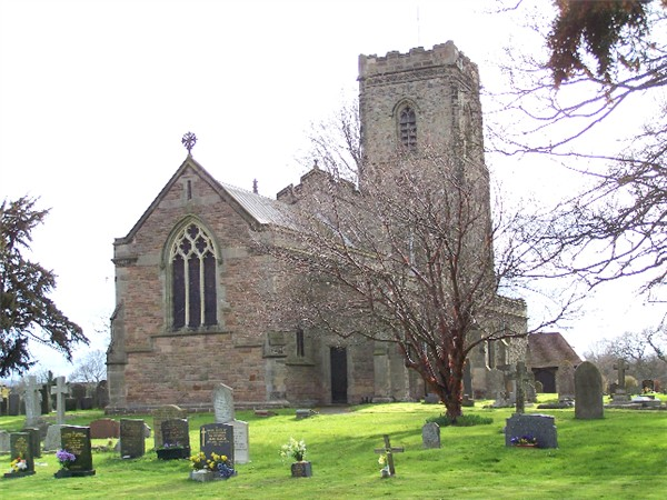 St John the Baptist's parish church, Stanford on Soar, Nottinghamshire, seen from the northeast